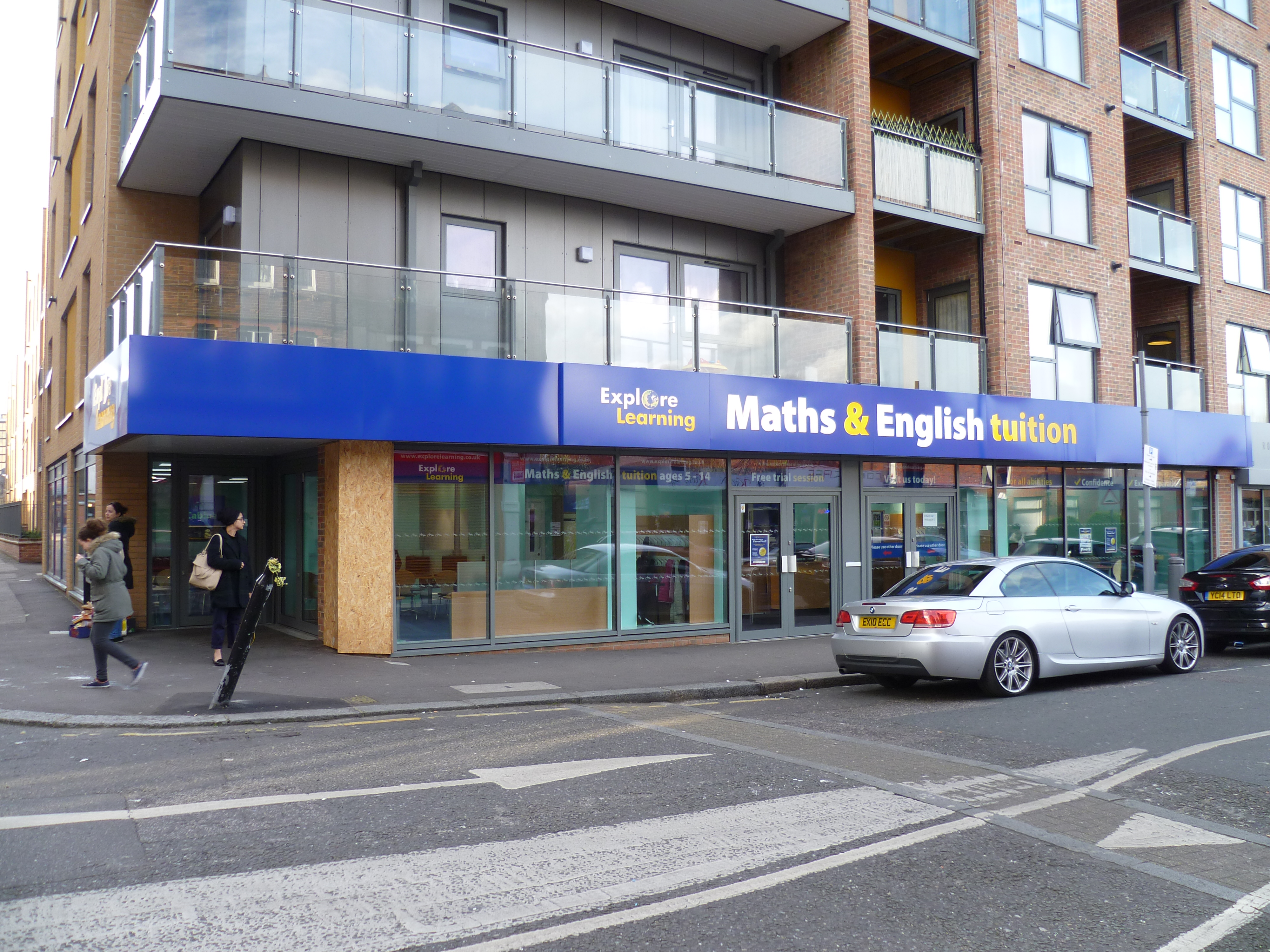 London